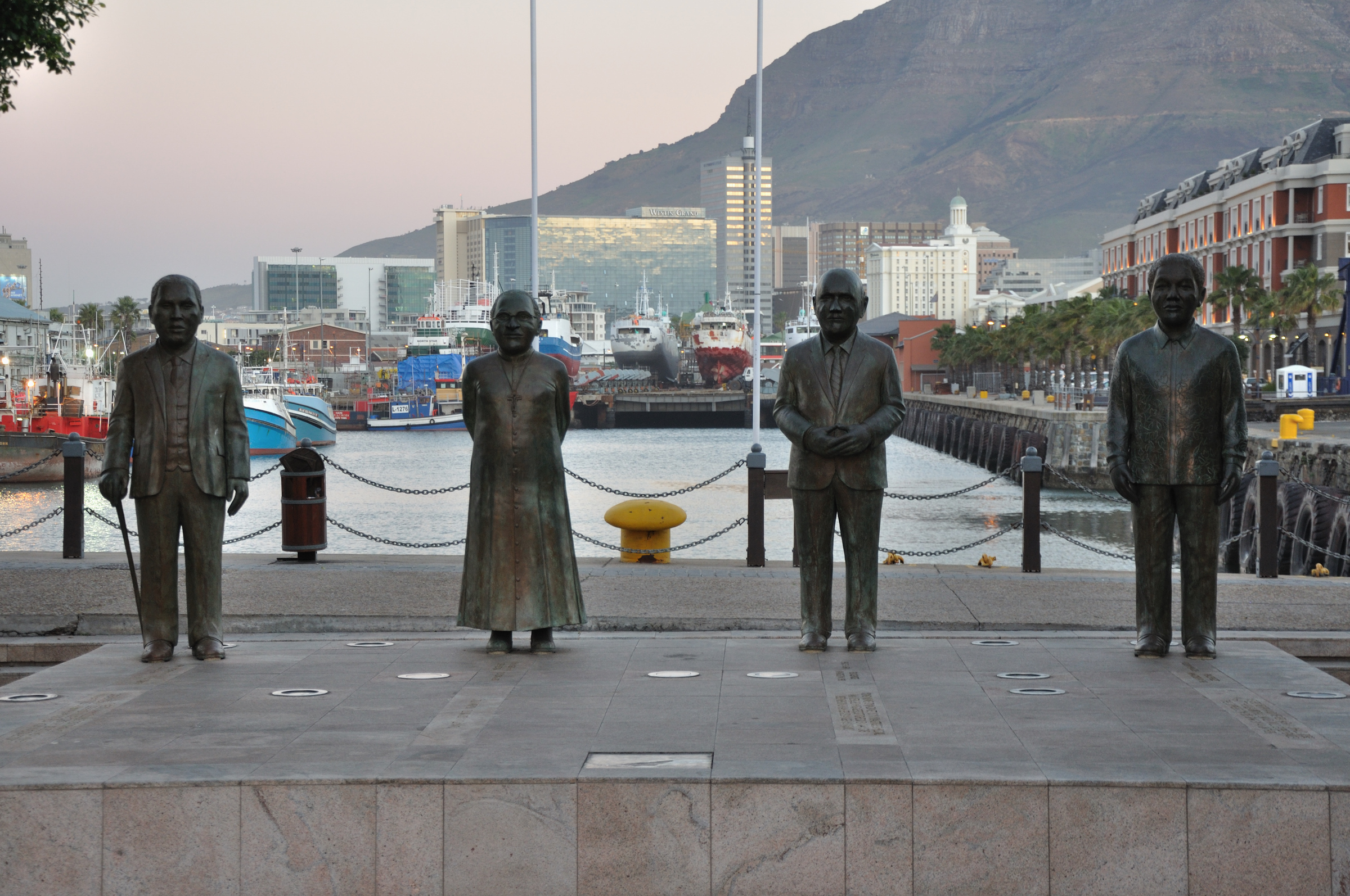 South Africa, Evening at the Victoria & Alfred Waterfront